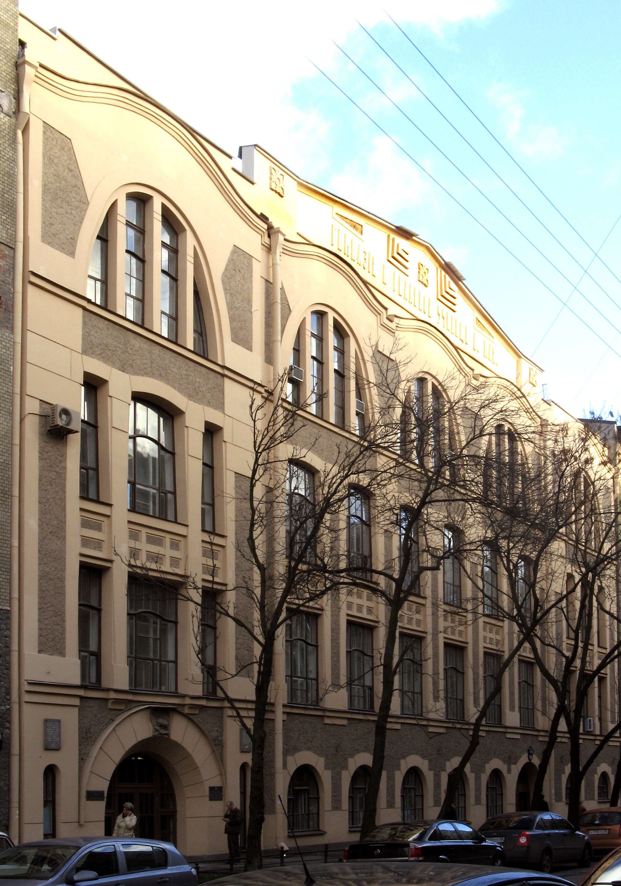 Facade view of Karl May School. St. Petersburg Institute for Informatics and Automation RAS. 14-line of Vasilievsky Island, building 39.